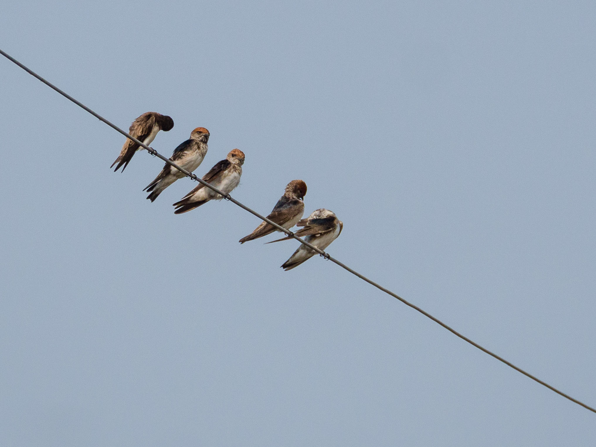 Grey-throated Martin and Streak-throated Swallow